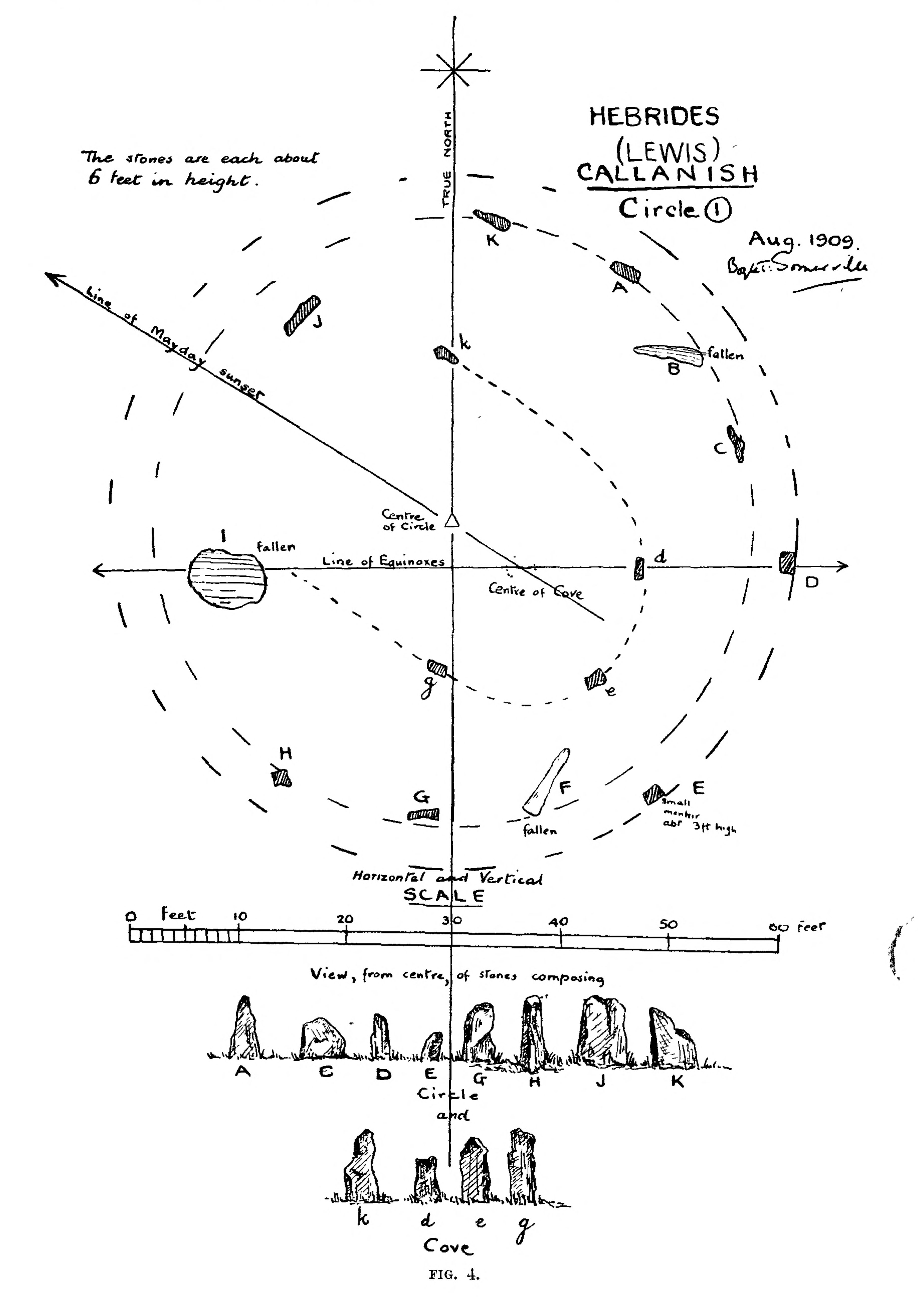 Callanish Circle 1. Figure 4 from Prehistoric Monuments in the Outer Hebrides, and Their Astronomical Significance